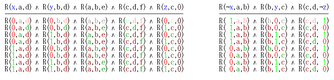 The left table shows the 1-in-3-SAT clauses Schaefer's reduction maps a 3-SAT clause x∨y∨z to. a,...,f are fresh variables; the result of R is true iff exactly one of its arguments is. All 8 combinations of values for x,y,z are examined, one per line. The reduction is satisfiable iff x∨y∨z is true. The right table shows a simpler reduction with the same properties.